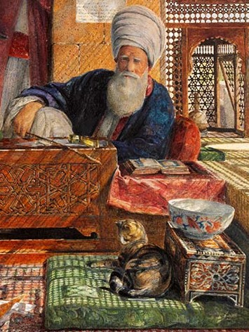 Interior of a school in Cairo; detail of a painting by John Frederick Lewis